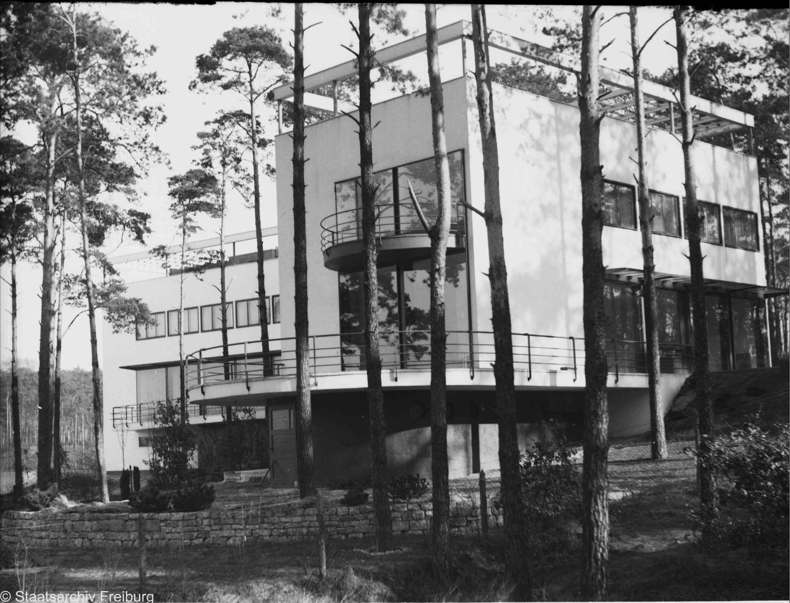 “Luckhardt-Villa” in Berlin’s Westend, photographed in 1932.